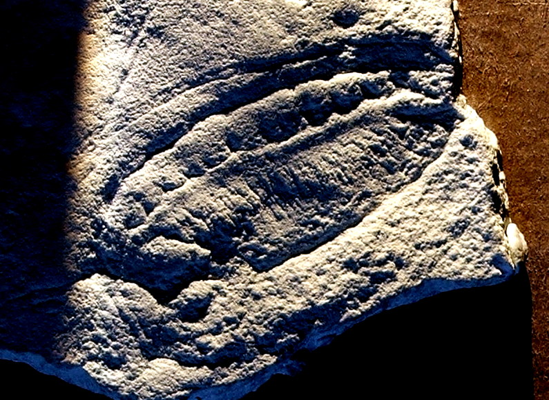 thumb|See also...